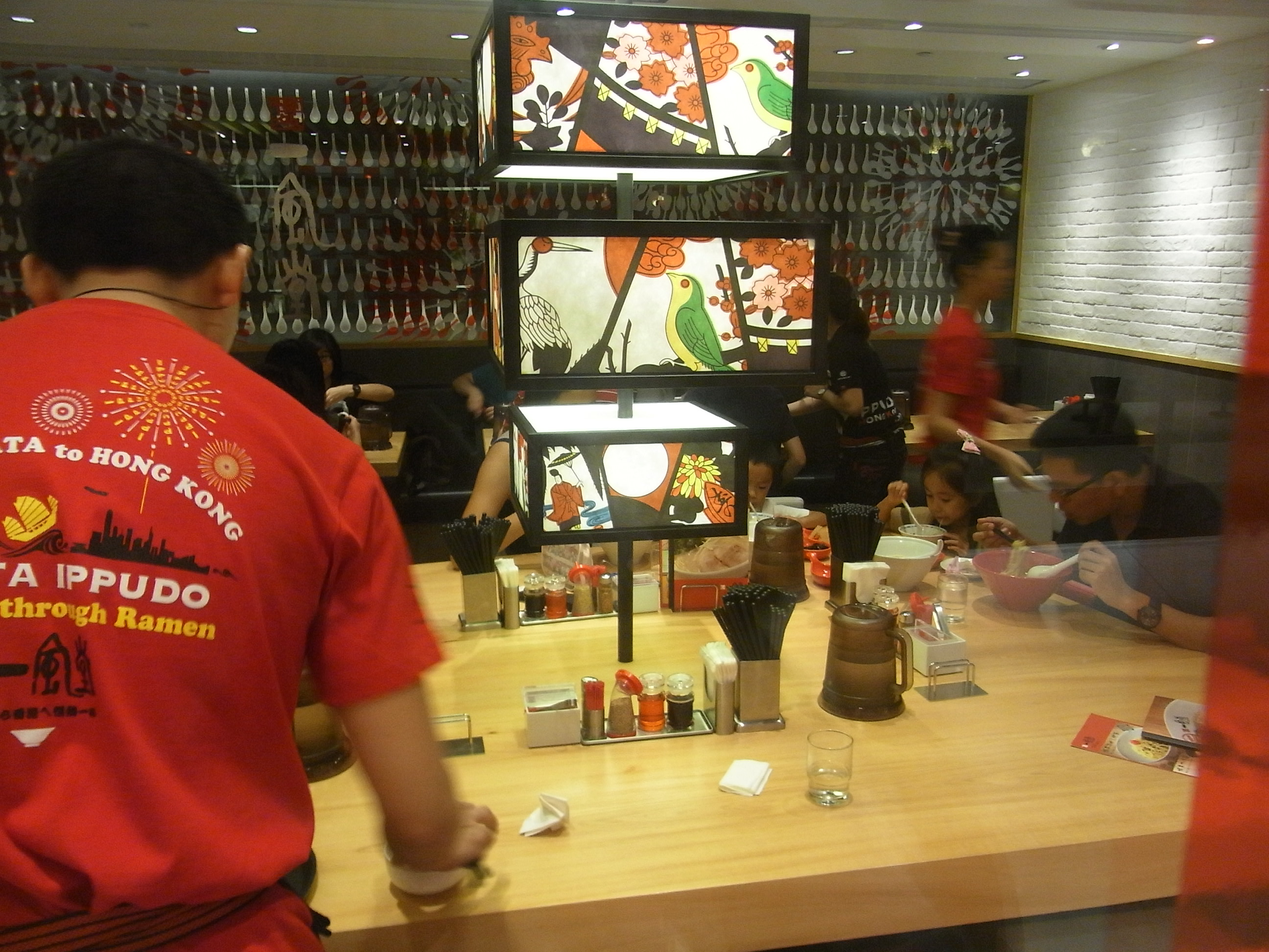 金鐘廊, LAP Concept, Queensway Plaza, Hong Kong